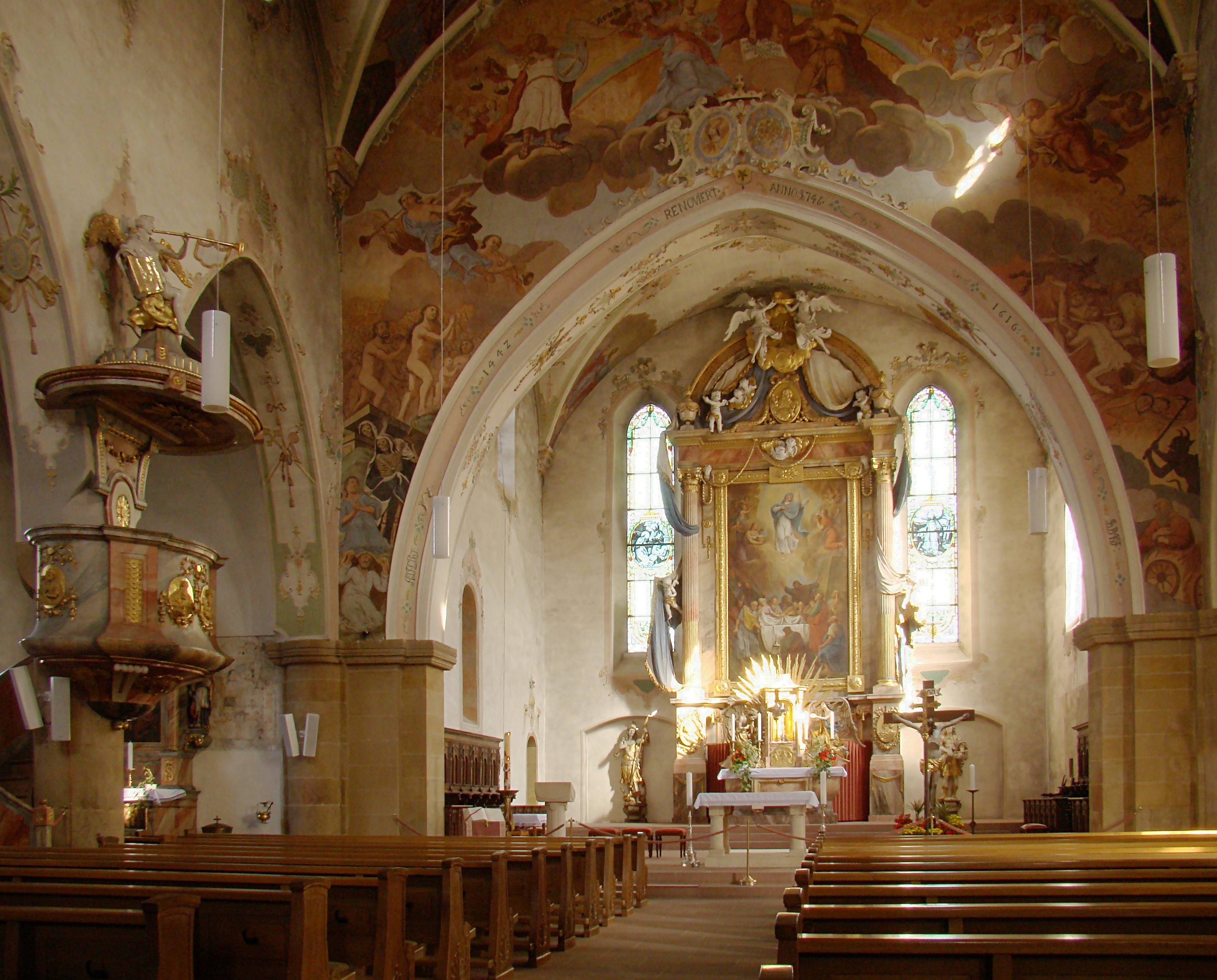 Engen, church of the assumption of Our Lady